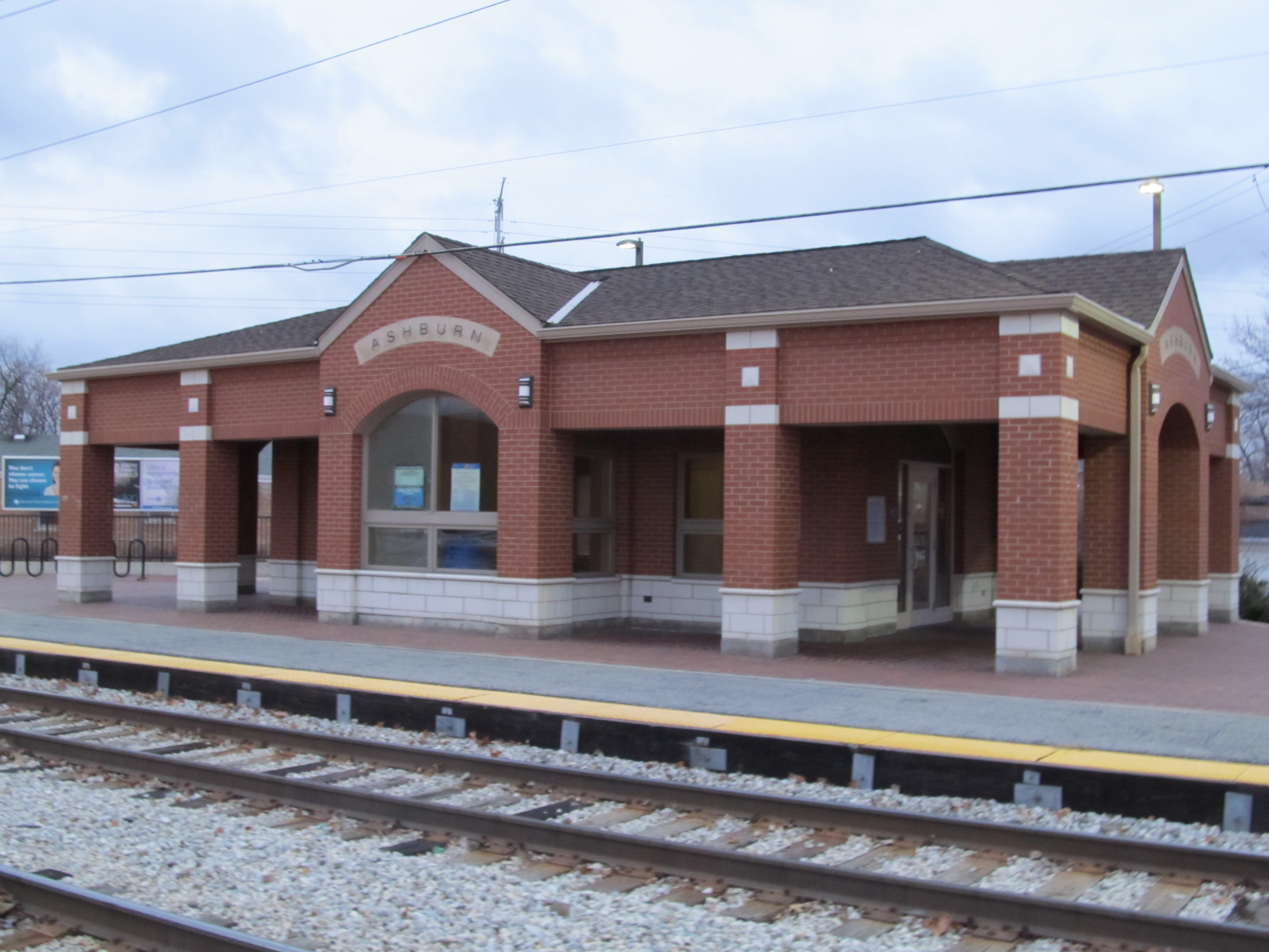 83rd St. & Central Park Ave. Chicago, IL Metra Southwest Service Zone C